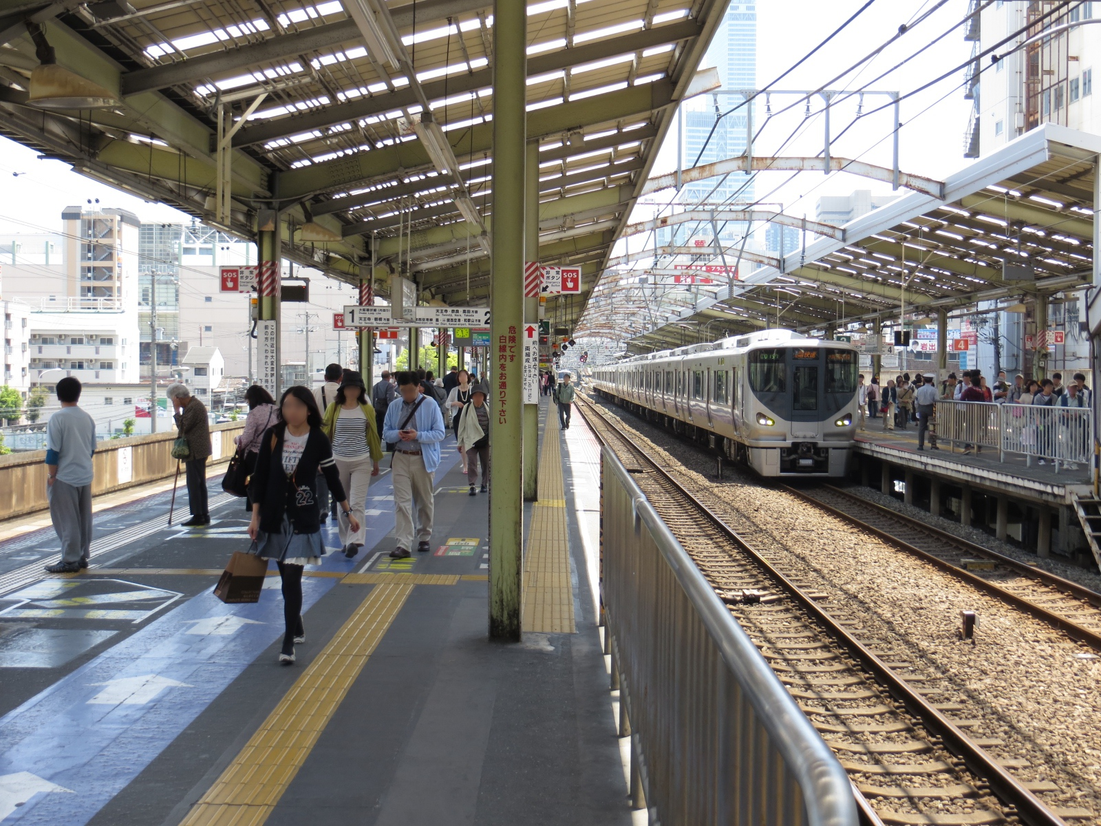 Platform from Shin-Imamiya Station (JR West).